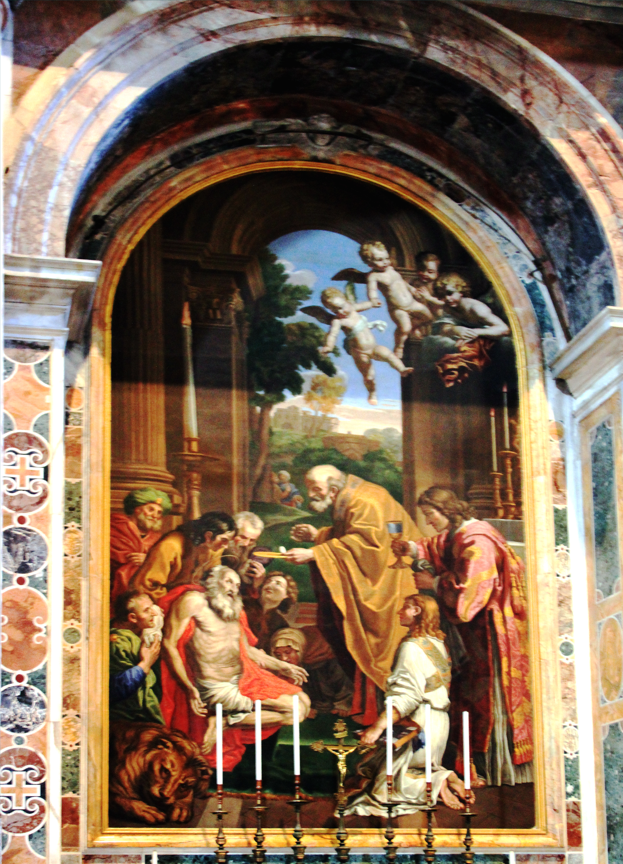 Interior of St. Peter's Basilica in Vatican City, Rome